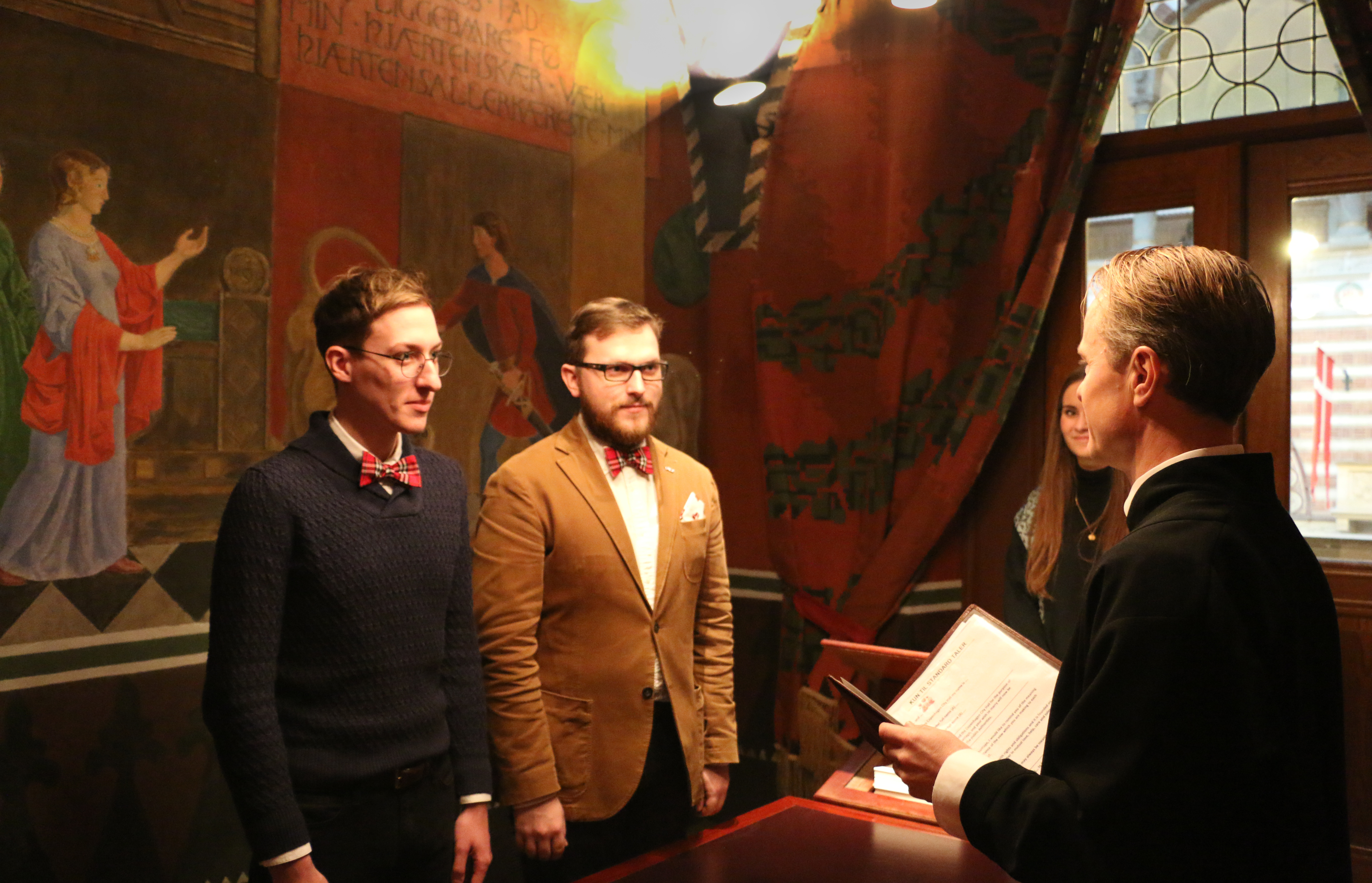 Pavel Stotsko and Evgenii Voitsekhovskii are marrying in the wedding office of Copenhagen's Town Hall